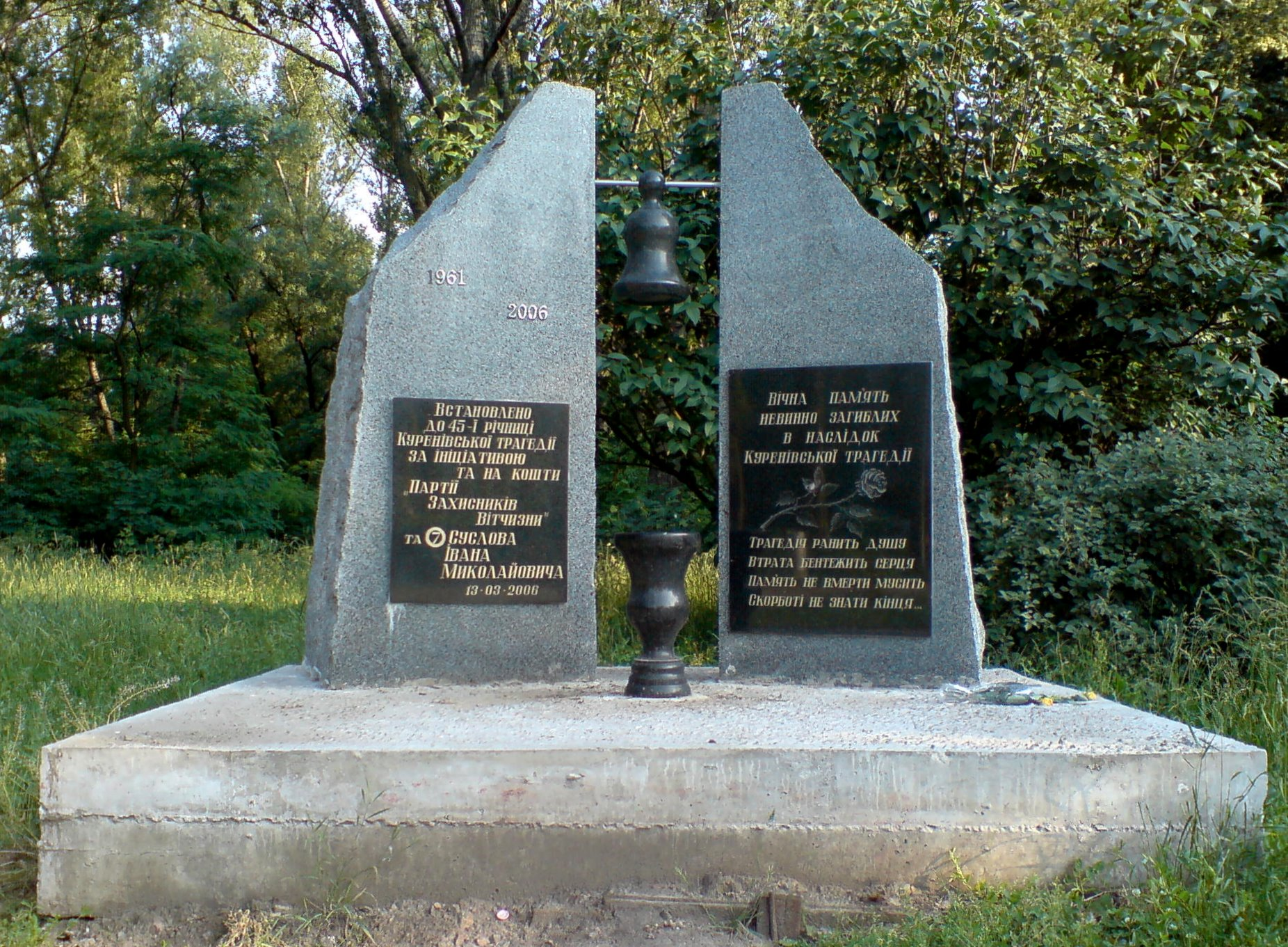 Monument to victims of Kurenivka mudslide in Kiev